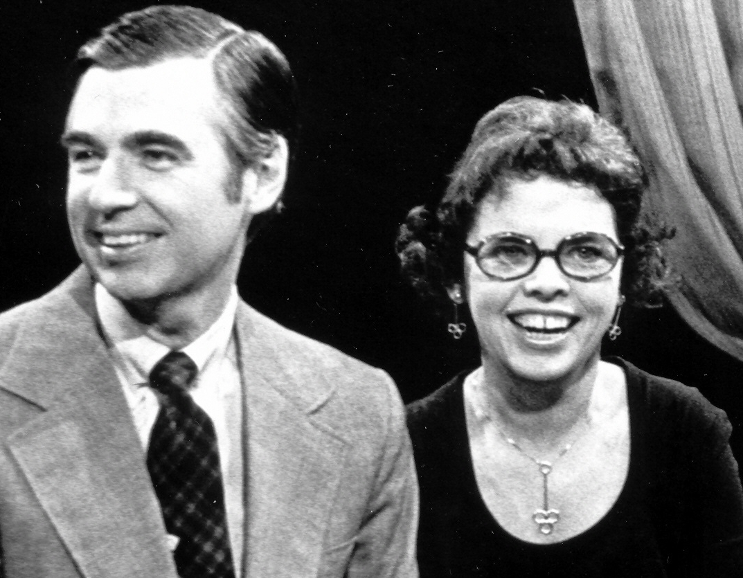 Fred and Joanne Rogers sitting at a piano.